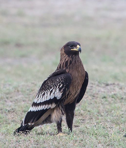 Greater Spotted Eagle, Aquila clanga from Tal Chapar Wildlife Sanctuary